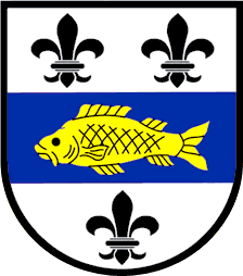 Coat of arms of Czech municipality Řepice Česky: Znak obce Řepice. Blason: Ve stříbrném štítě modré břevno se zlatým kaprem provázené třemi (2, 1) černými liliemi. Ref = REKOS